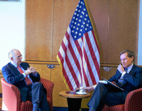 Deputy Secretary Zoellick meets with the UN's Envoy for Sudan, Jan Pronk. The Deputy Secretary is participating in the International Donors Conference for Sudan being held in Oslo.